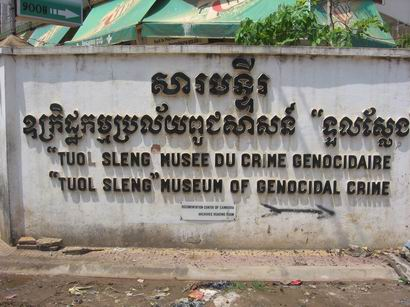 Own work taken in the Tuol Sleng Museum with permission from the Museum administration on March 13, 2006. Donated to the Wikipedia system and it can be considered wikipedian document. Albeiro Rodas, Cambodia, July 2006.